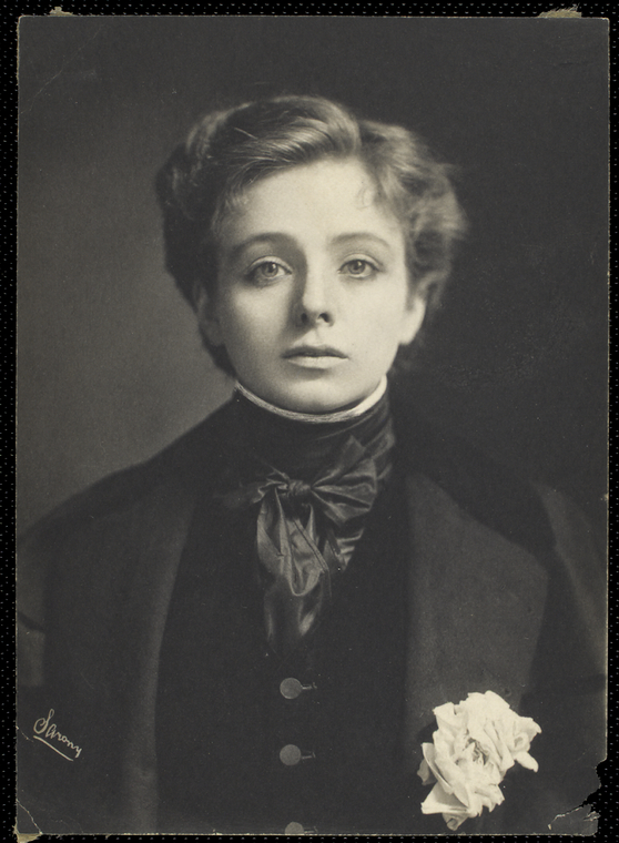 Maude Adams portrait in suit, original of File:Mitchell maude adams.jpg (cigarette card)